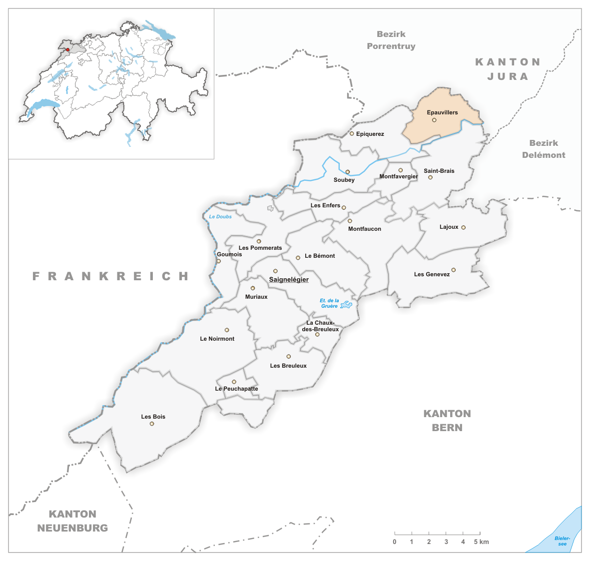 Municipality Epauvillers